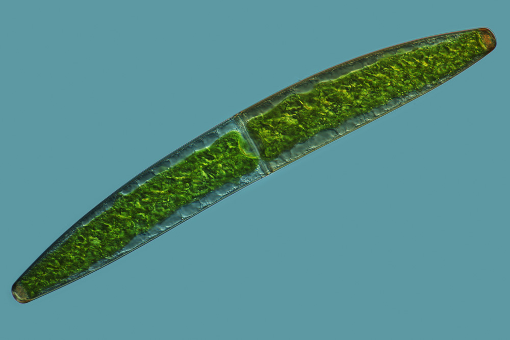 Closterium, Desmidiales